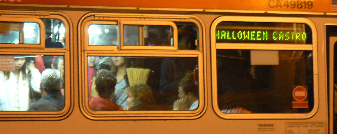 Crowds pack into the local buses on their way to the halloween festivities in Castro. San Francisco MUNI bus with a destination "Halloween Castro."